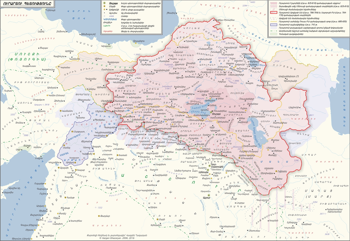 The state of Urartu throughout ages